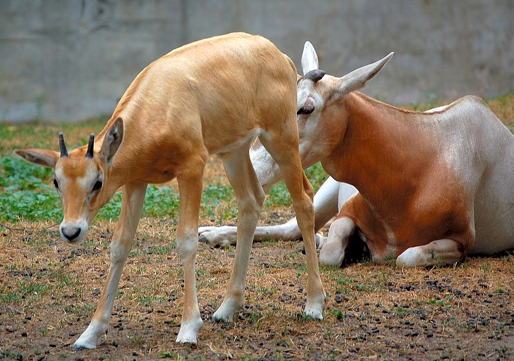 Young Scimitar Oryx with its mother in Warsaw Zoo.